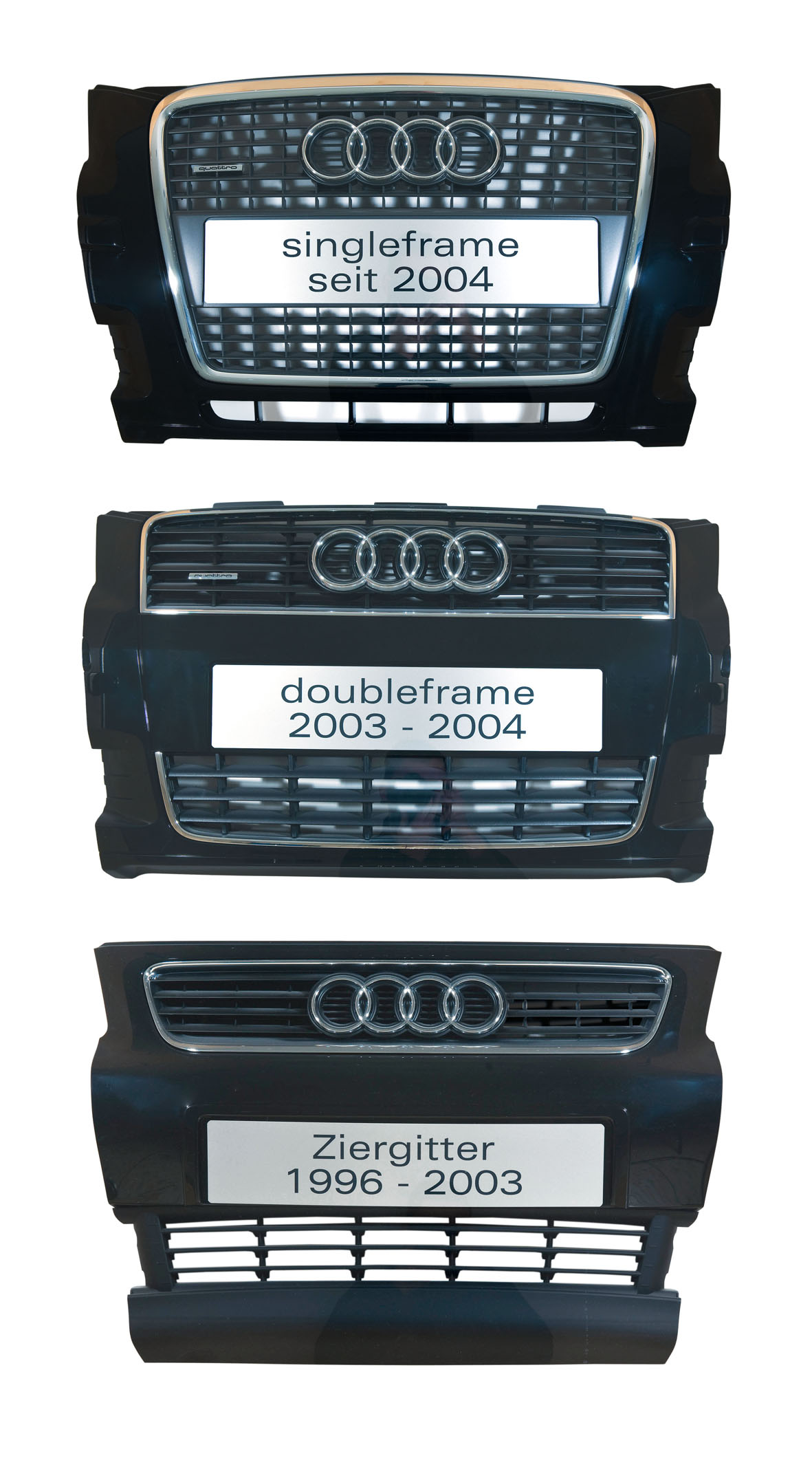 Entwicklung Audi Kühlergrill